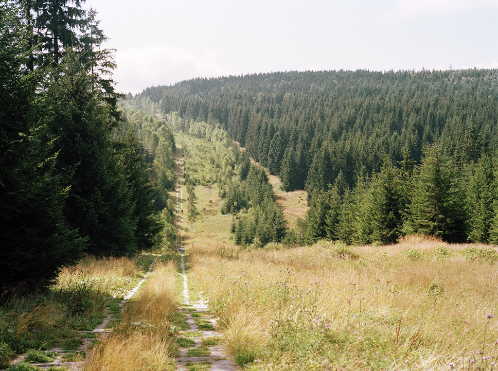 The former GDR border between Sorge and Hohegeiss in the Harz mountains. Many border areas were cleared of trees in order to create a border strip with a patrol road (left). This part is a good example of the German Green Belt, which turned the border landscape into an ecological and recreational zone.